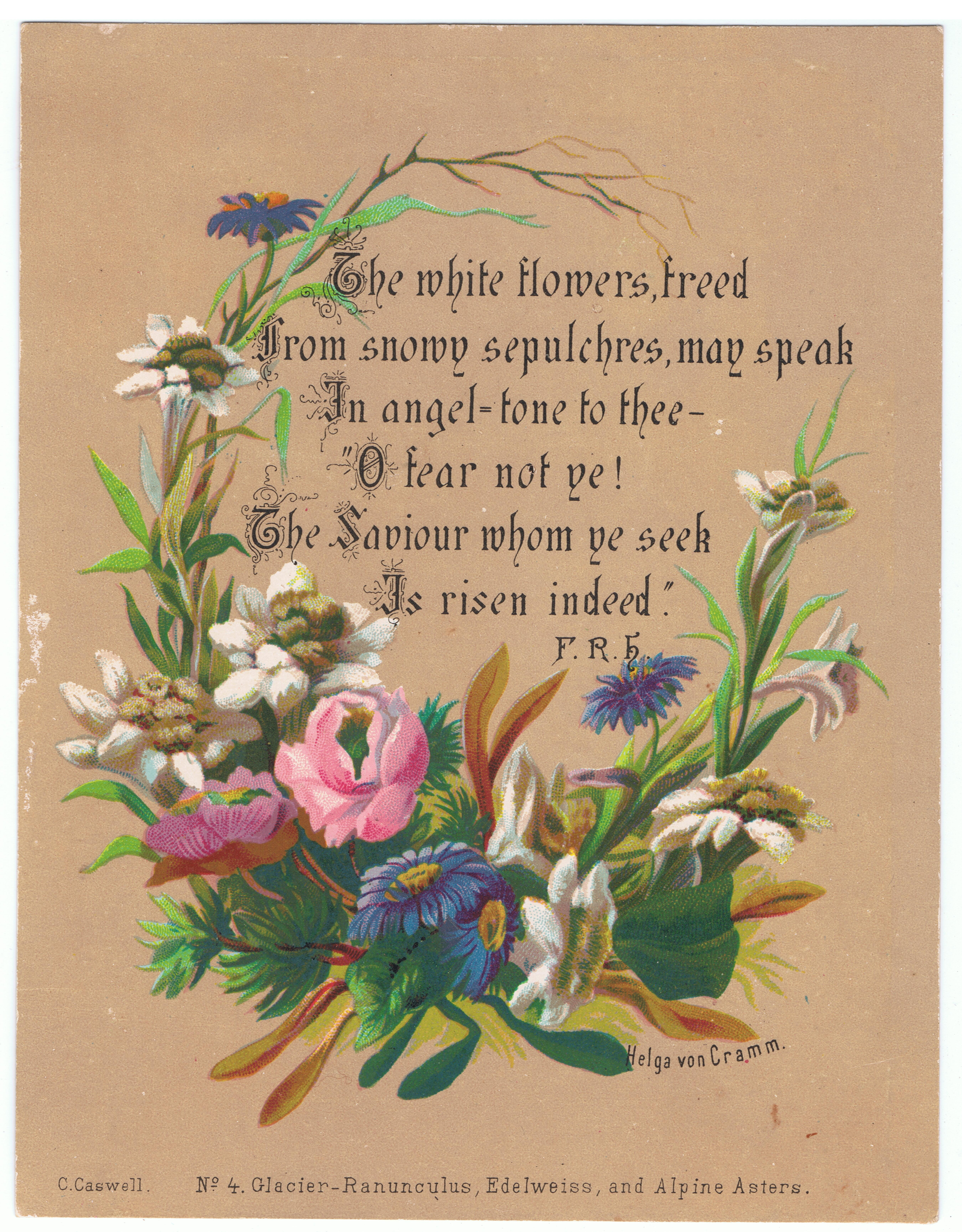 Scan (by me, R. de Salis, Rodolph (talk) 22:41, 4 April 2015 (UTC)) of Helga von Cramm. C. Caswell. No. 4. Glacier Ranunculus, Edelweiss, and Alpine Asters. Chromolithograph. With hymn by F.R.Havergal, c.1870. Postcard size. To dear Emily with Emma's love